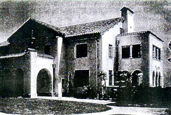 Residence of Gengo Kodera